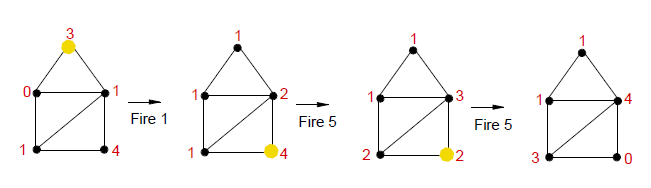 Example of chip-firing game on a graph